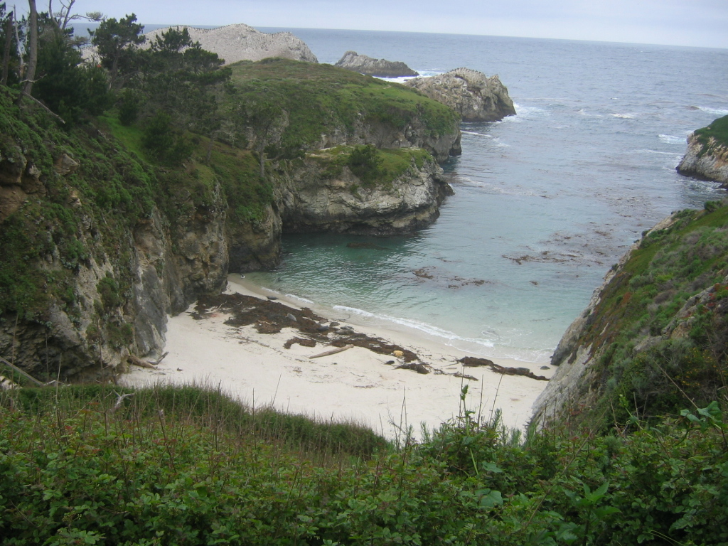 Cove with native Monterey Pine Pinus radiata trees (top left), in Point Lobos State Reserve, Monterey Peninsula region, California.